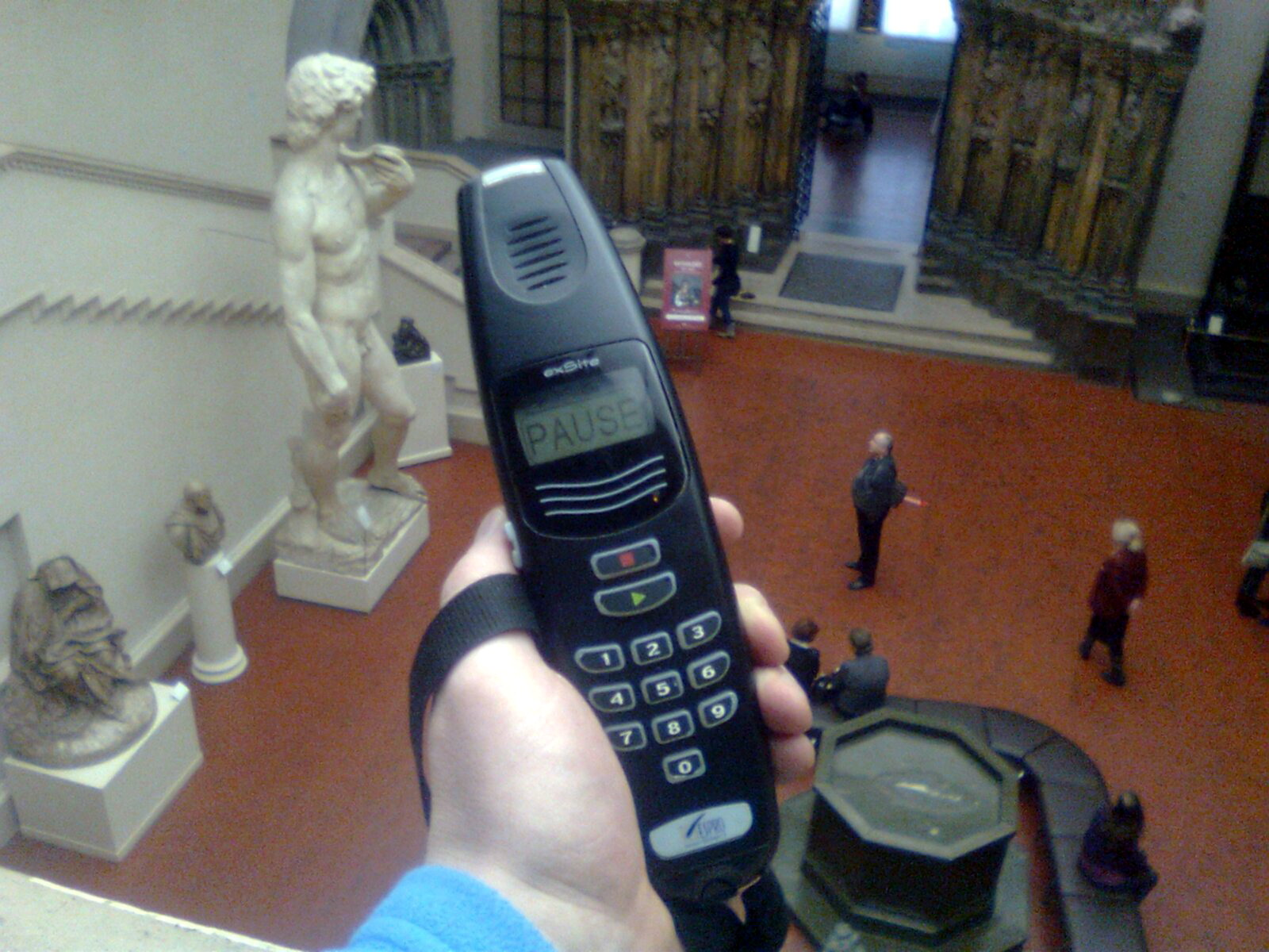 Audioguide gadget in Pushkin museum, Moscow